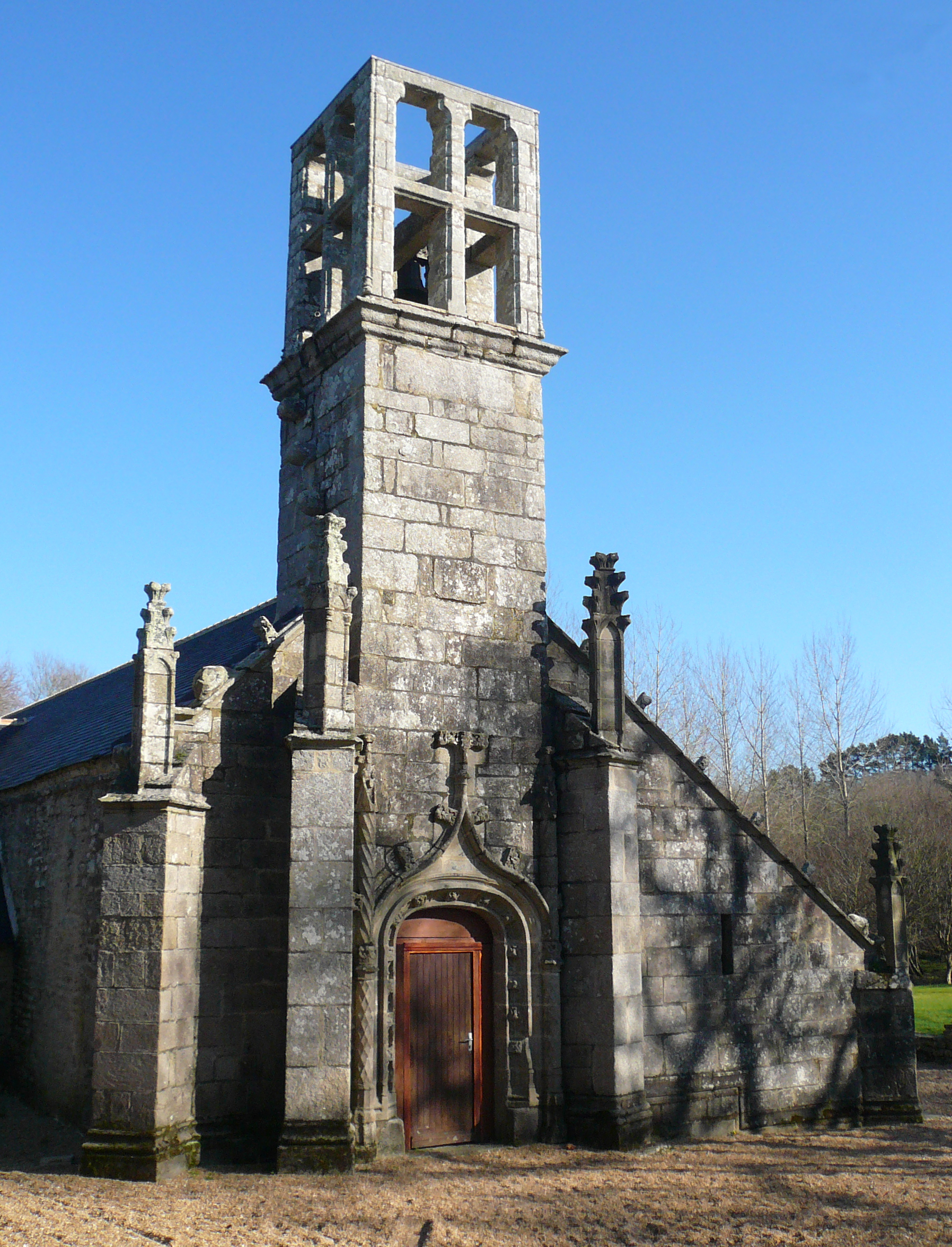 Western facade of chapel of Lanvern, Plonéour-Lanvern, Finistère, Brittany, France.